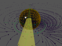 Mobius transformation